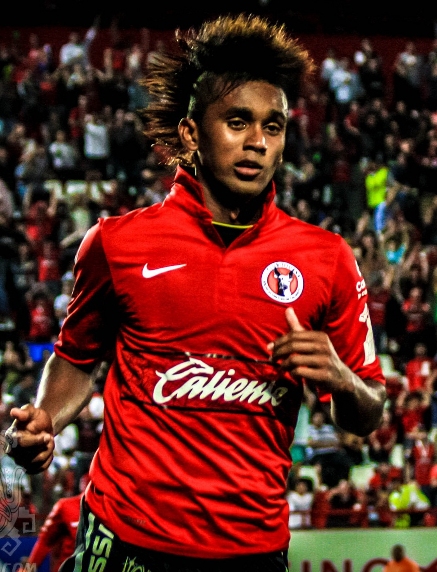 Tijuana player Fidel Martínez